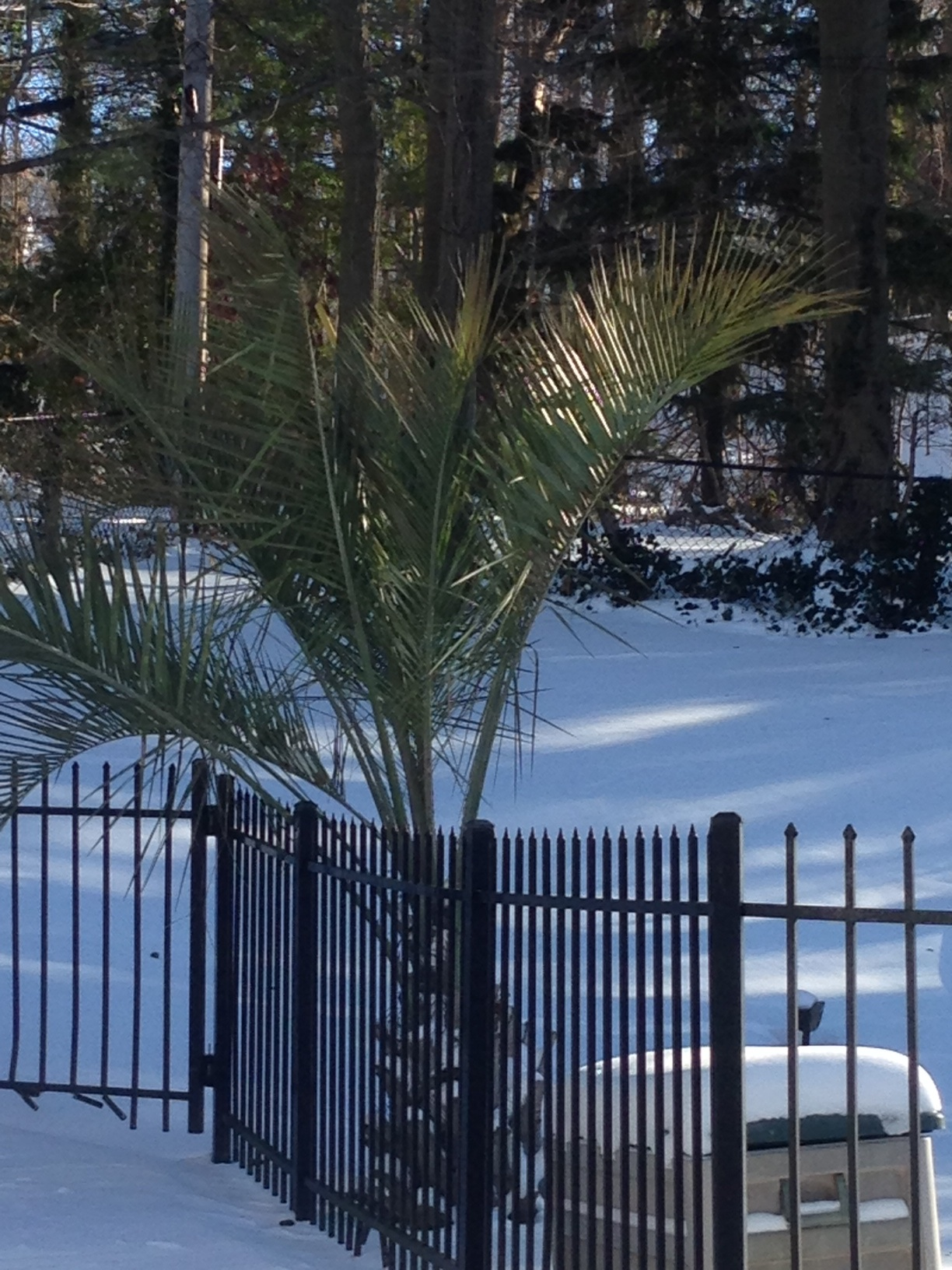 9 foot Pindo after the Blizzard of 2014 in Roslyn Harbor, NY. Courtesy of kokomo Trading Company